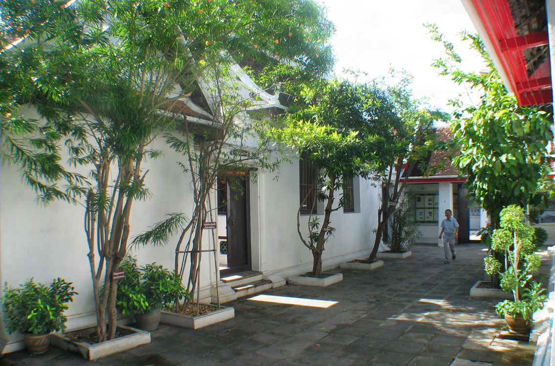 Kuti of Thailand's famous poet Sunthorn Phu in Wat Thepthidaram, Bangkok, Thailand.